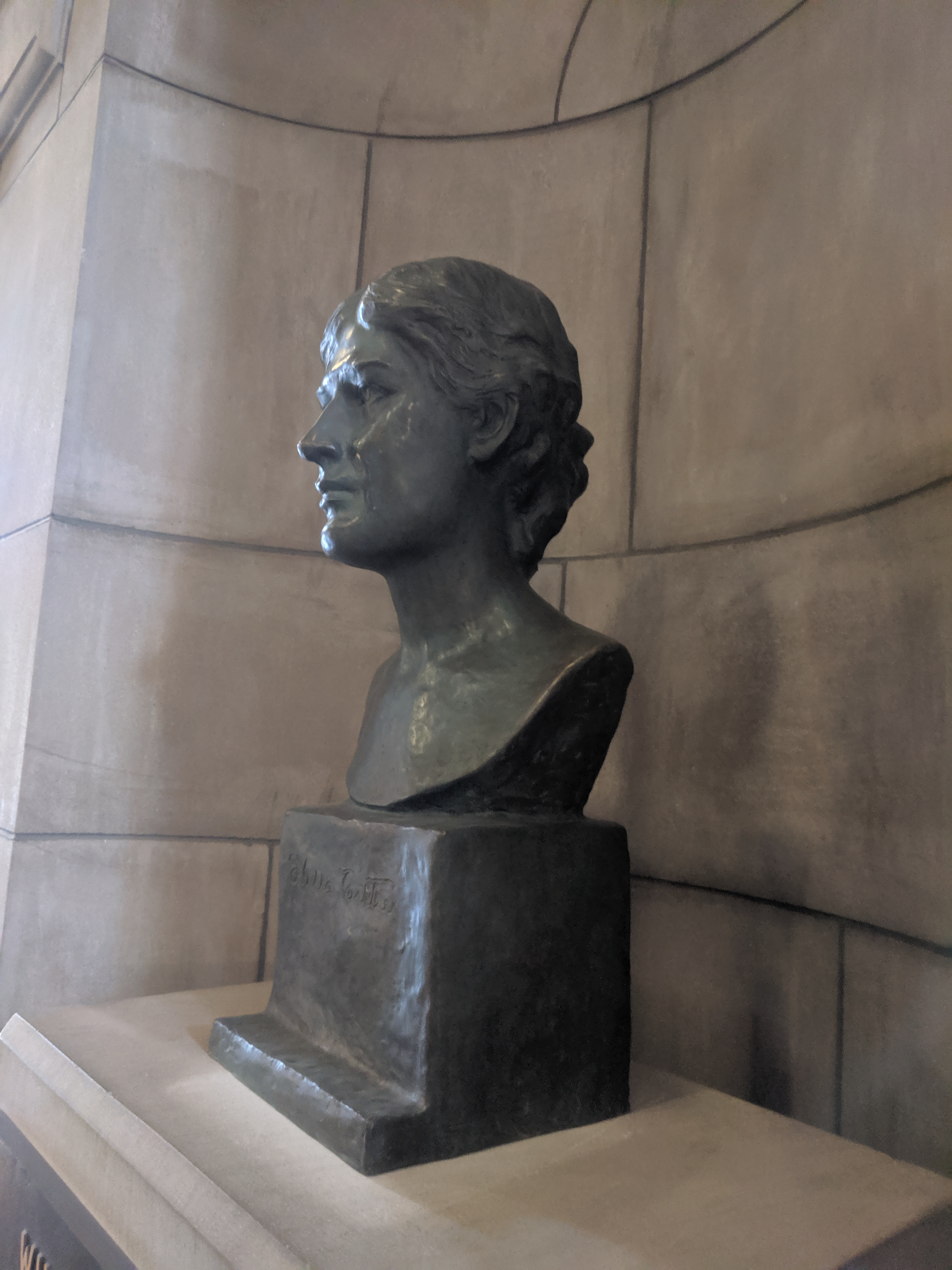 Portrait bust of author Will Cather, sculpted by Paul Swan, located in the Nebraska State Capitol Building